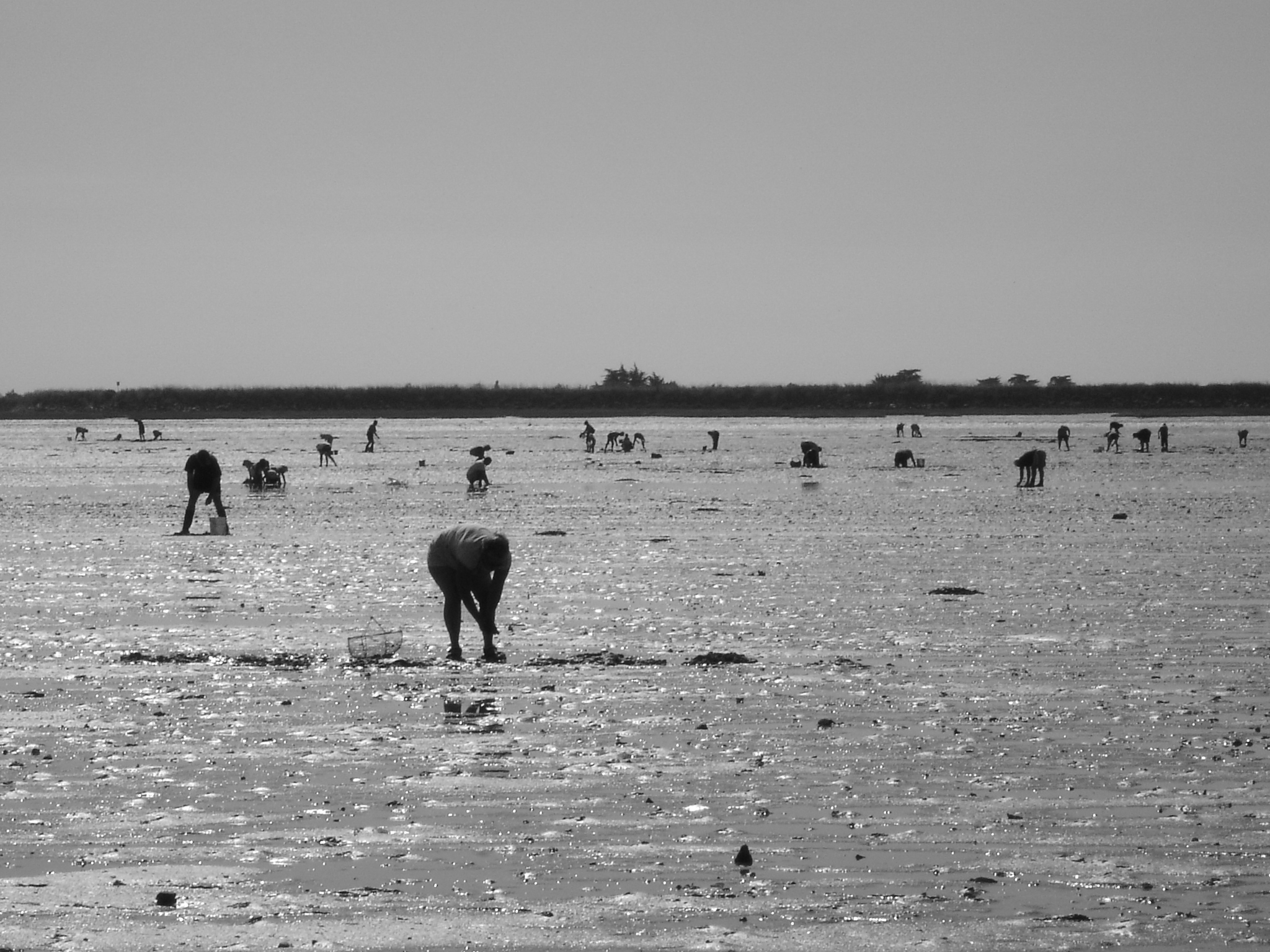 France, Vendée (85), Passage du Gois